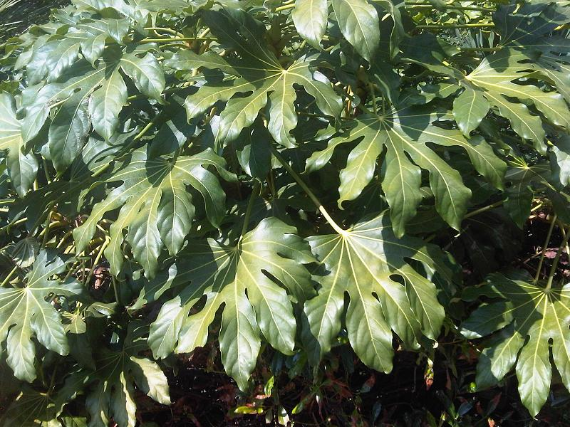 Fatsi or Japanese Aralia (Fatsia japonica) leaves in Putney Heath Common, England.